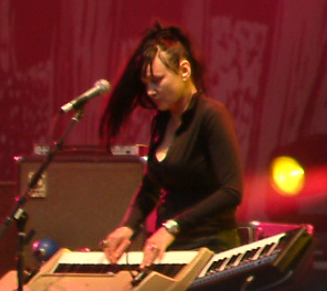 Natasha Shneider performing with Queens of the Stone Age in Paris, France, 2005